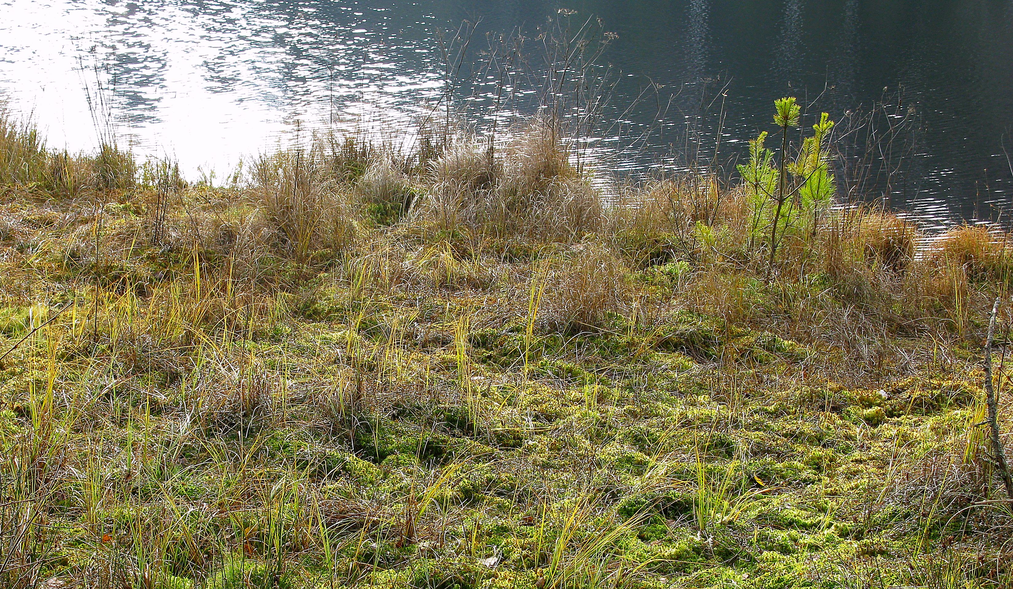 Quagmire in Wigry National Park